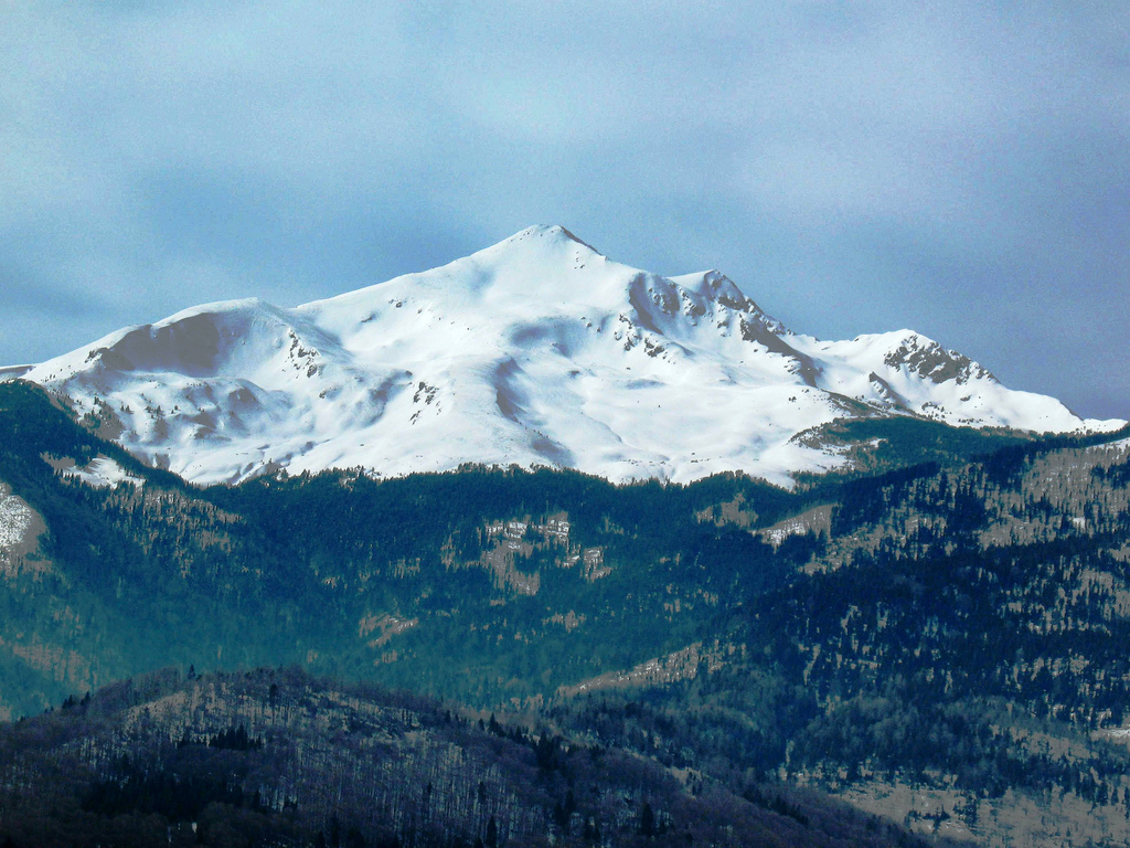 Đeravica peak of Prokletije mountain.